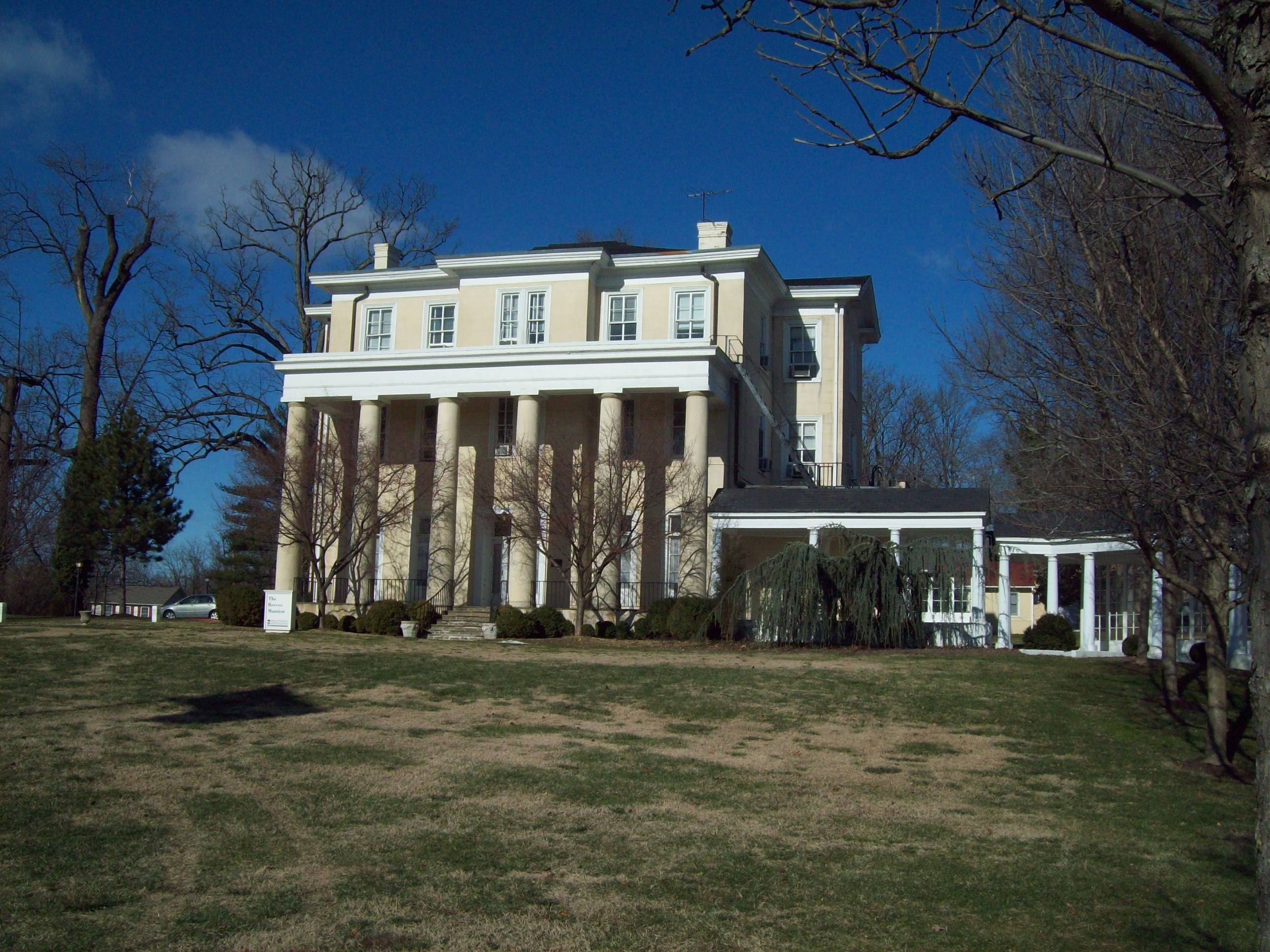 James Lawrence Kernan Hospital, December 2009